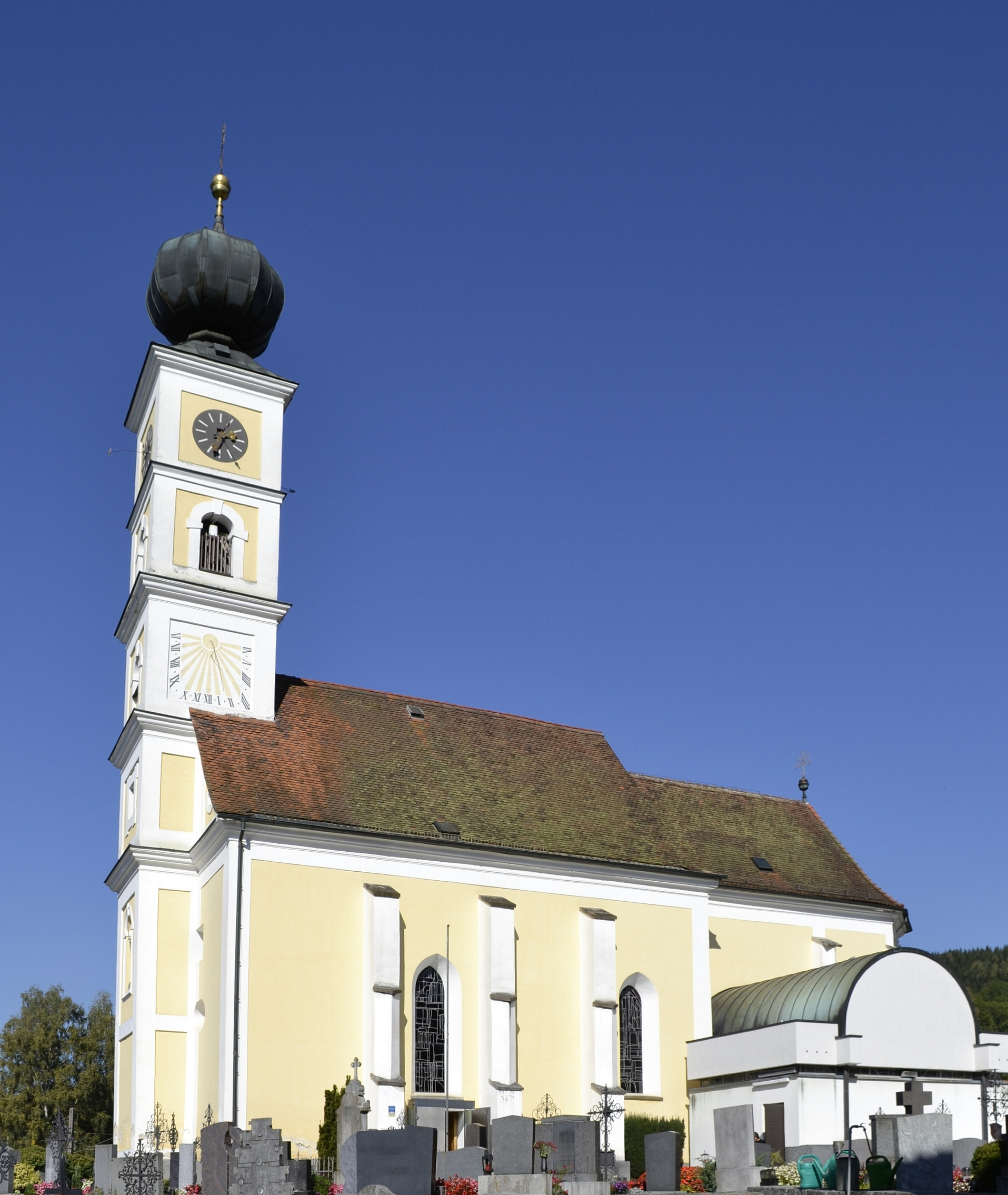 The Saint George church of Wernstein am Inn in Upper-Austria.